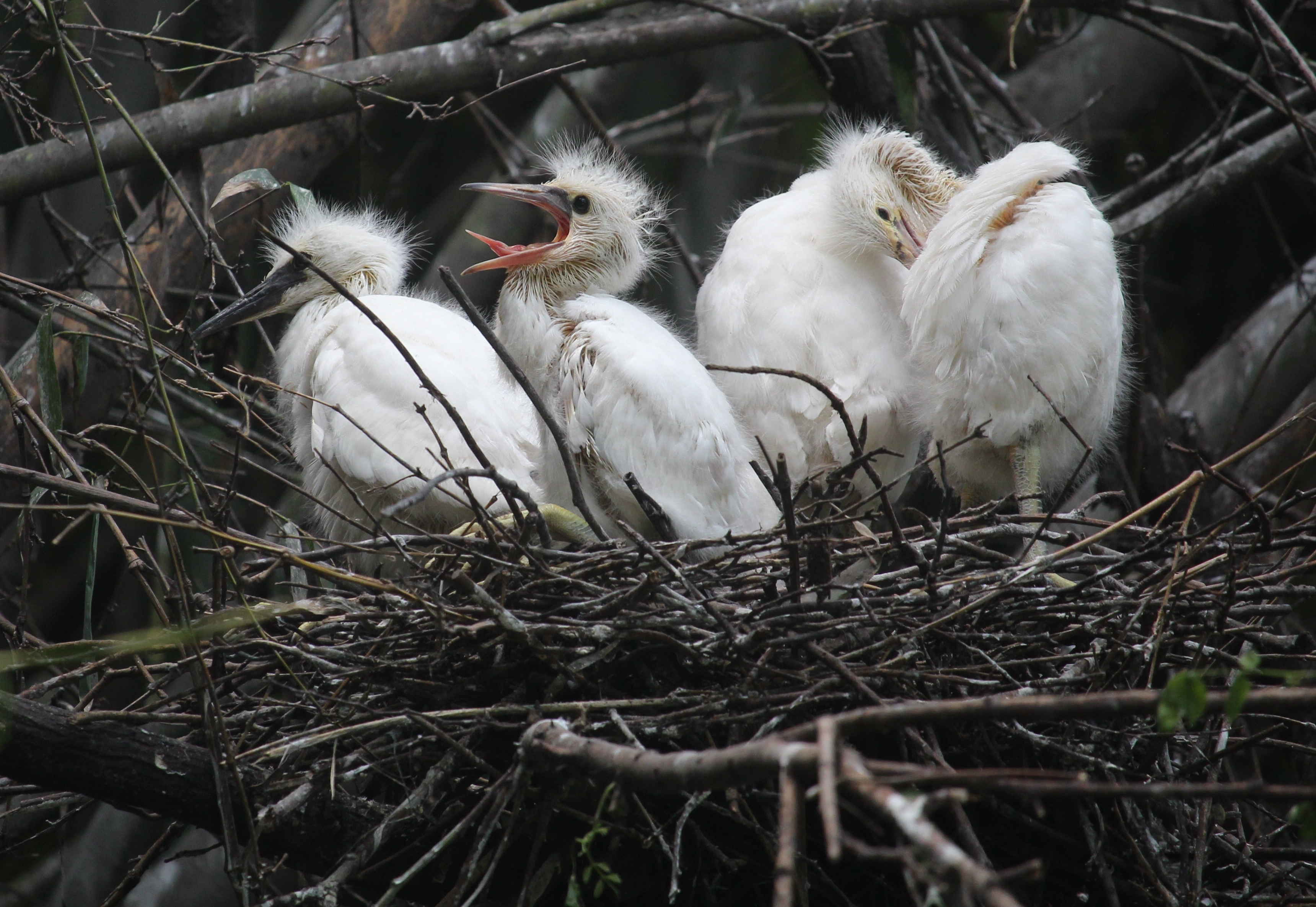 Egretta garzetta (juvenile) in nest in Aichi Prefecture, Japan.